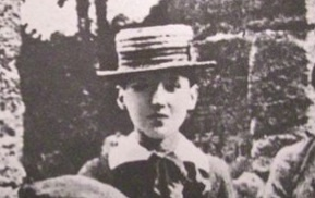 Marcel Proust